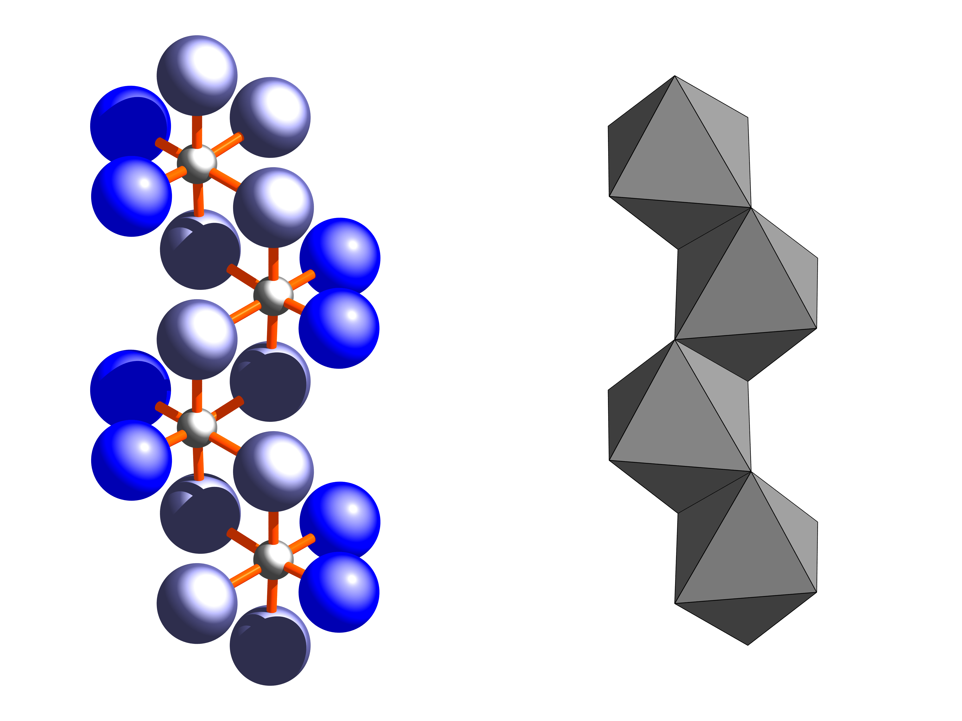 part of aerinite structure: zigzag chain of edge sharing Al-O/OH-octahedra blue: oxygen violet: OH